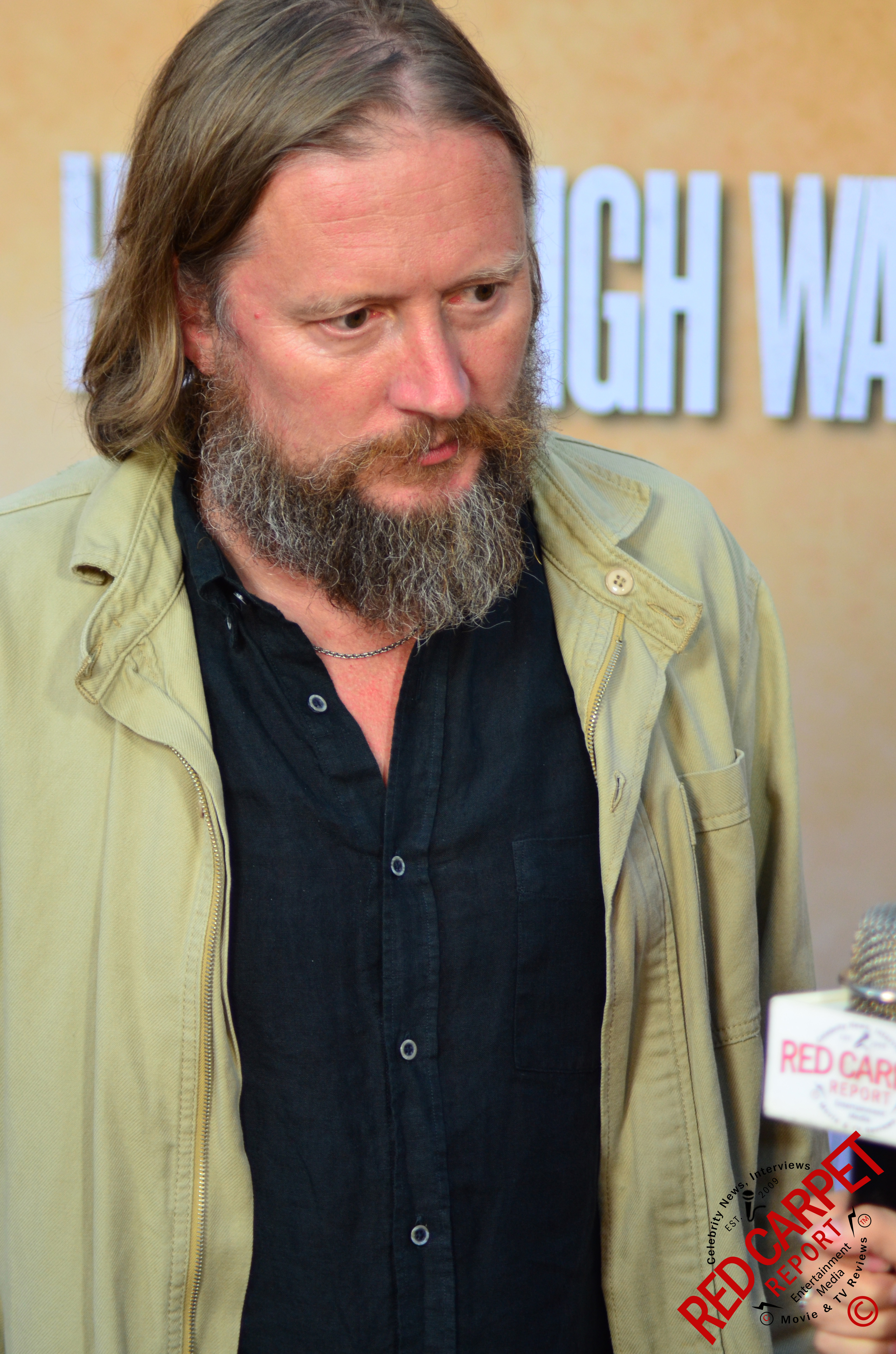 Mingle Media TV and our Red Carpet Report host Kate Durocher were at the at the Hell or High Water Event Screening Event Red Carpet at the Arclight Hollywood Theater. Get the Story from the Red Carpet Report Team, follow us on Twitter and Facebook at: ABOUT HELL OR HIGH WATER Texas brothers--Toby (Chris Pine), and Tanner (Ben Foster), come together after years divided to rob branches of the bank threatening to foreclose on their family land. For them, the hold-ups are just part of a last-ditch scheme to take back a future that seemed to have been stolen from under them. Justice seems to be theirs, until they find themselves on the radar of Texas Ranger, Marcus (Jeff Bridges) looking for one last grand pursuit on the eve of his retirement, and his half-Comanche partner, Alberto (Gil Birmingham). As the brothers plot a final bank heist to complete their scheme, and with the Rangers on their heels, a showdown looms at the crossroads where the values of the Old and New West murderously collide. Starring Jeff Bridges, Chris Pine, Ben Foster and Gil Birmingham. hellorhighwater.movie For more of Mingle Media TV’s Red Carpet Report coverage, please visit our website and follow us on Twitter and Facebook here: Follow our host, Kate on Twitter at